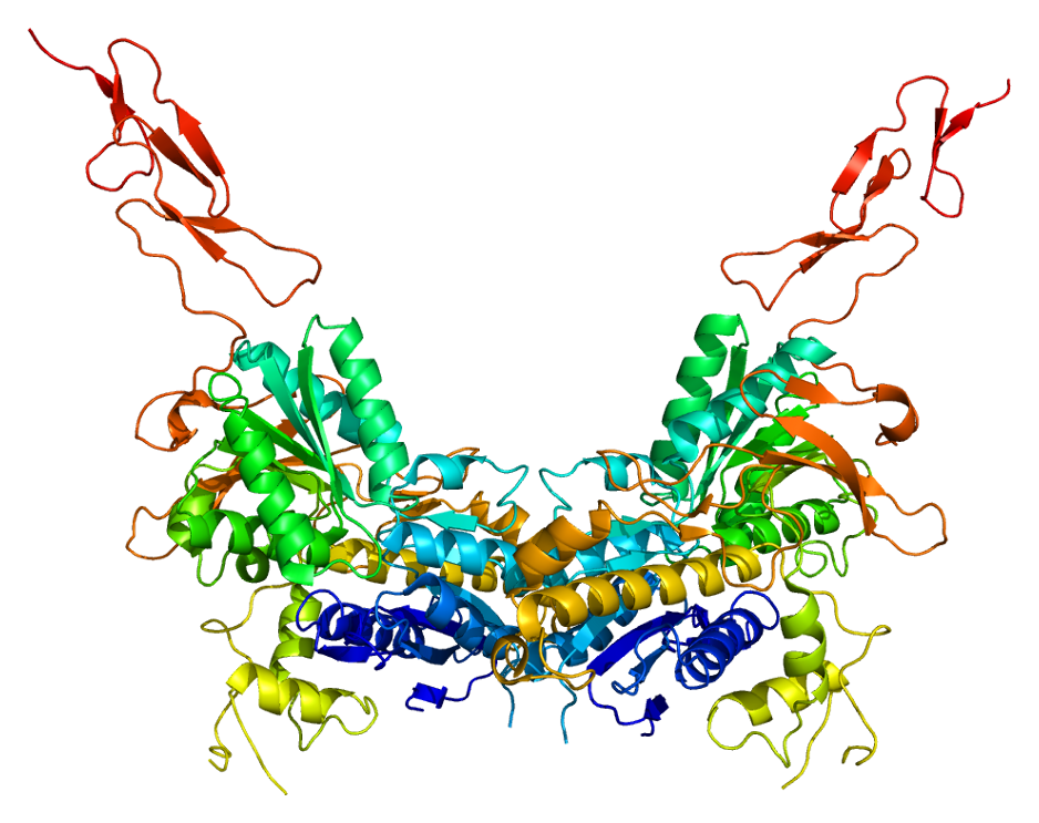 Structure of the GRM3 protein. Based on PyMOL rendering of PDB 2e4u.